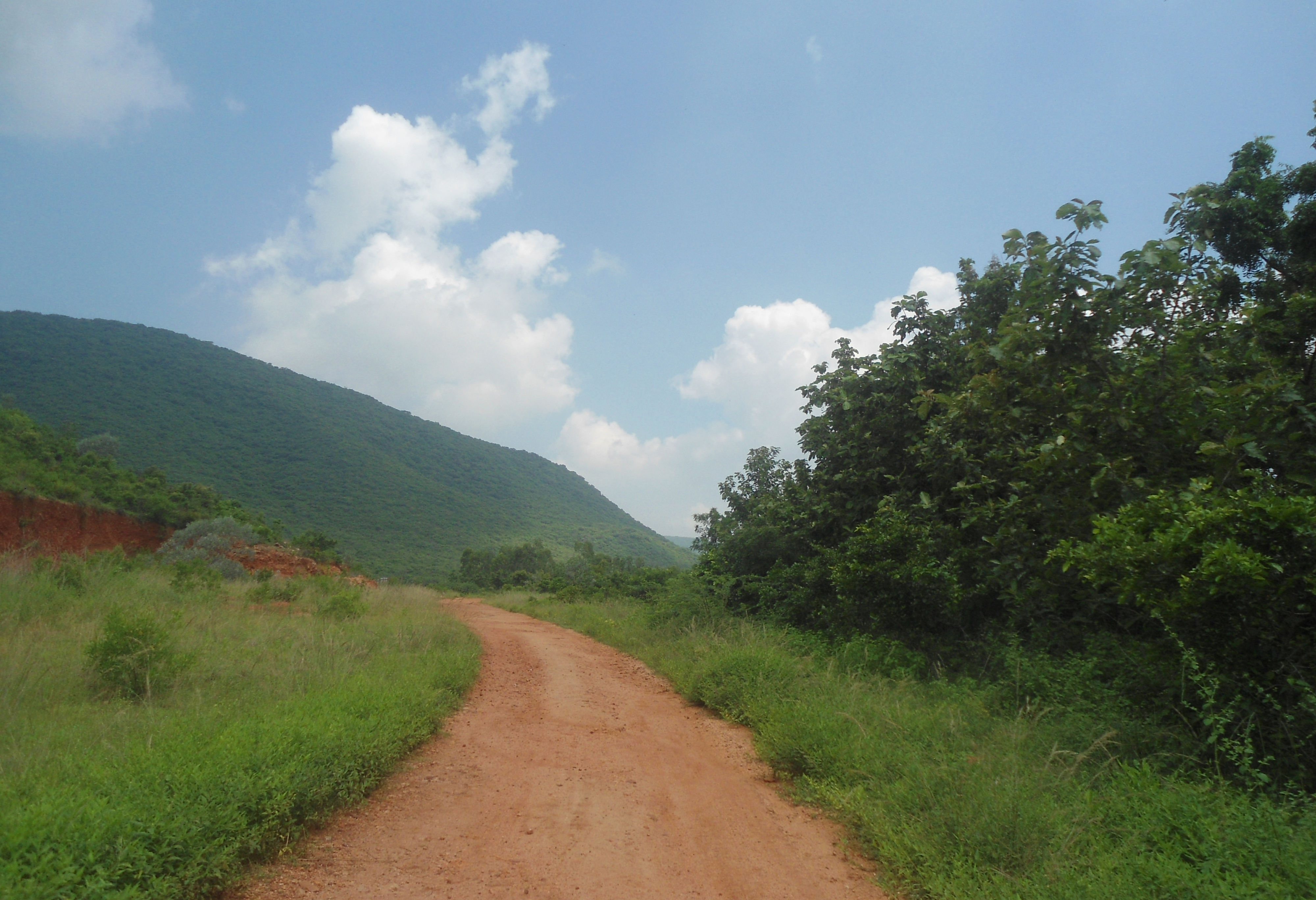 A Rural dirt road at Bakkannapalem along the Madhurawada Dome section of Eastern Ghats, Visakhapatnam